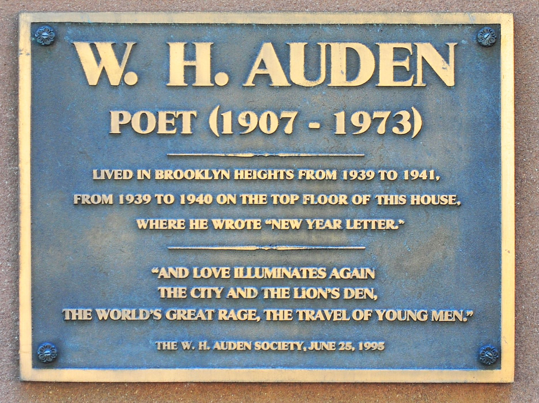 Plaque about W.H. Auden, Brooklyn Heights, Brooklyn, New York. This image represents an Open Plaques entry #50554.